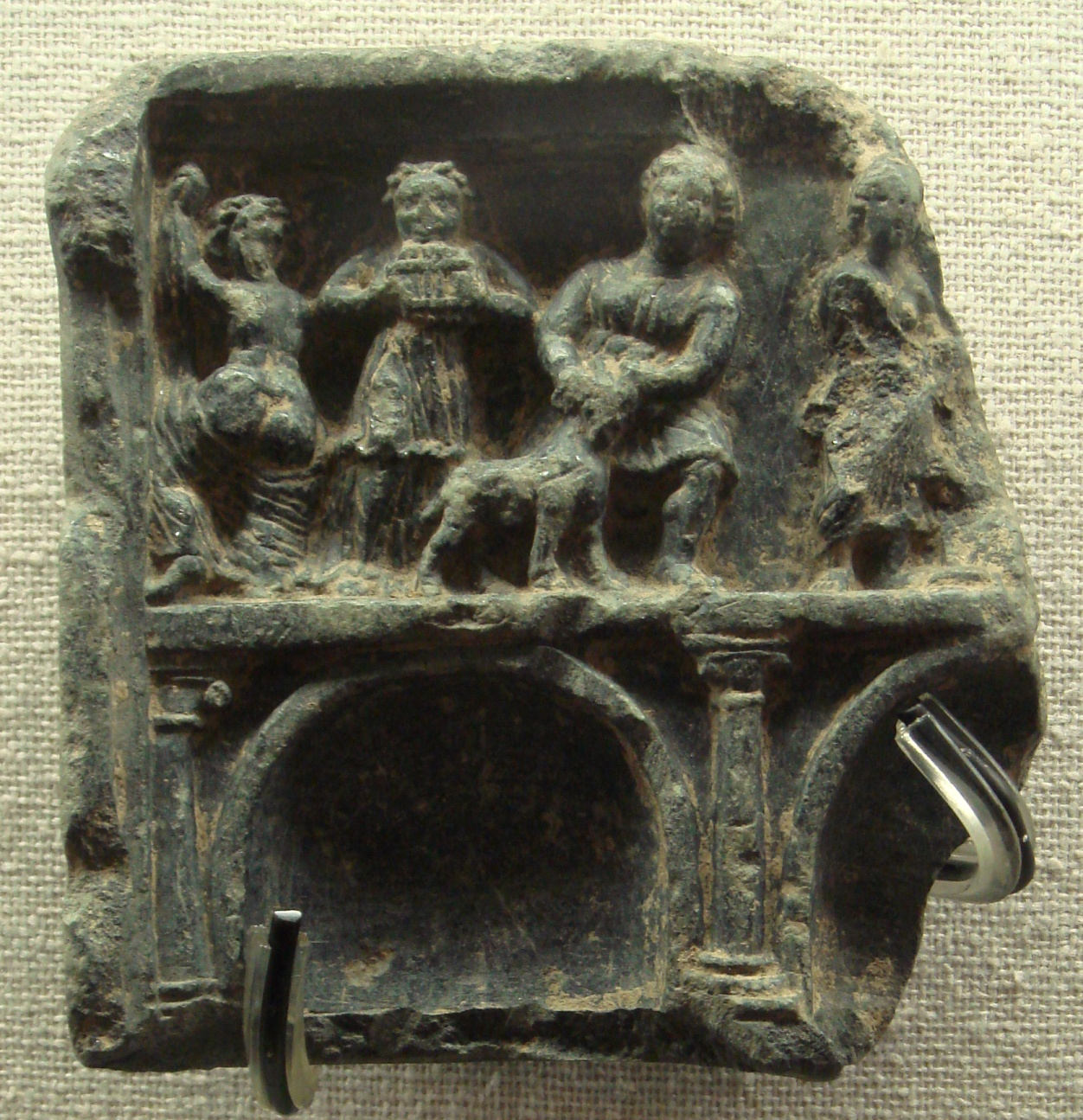 Indo-Greek banquet scene. Dates 2nd-1st century BCE. Ancient Orient Museum. Personal photograph 2006.